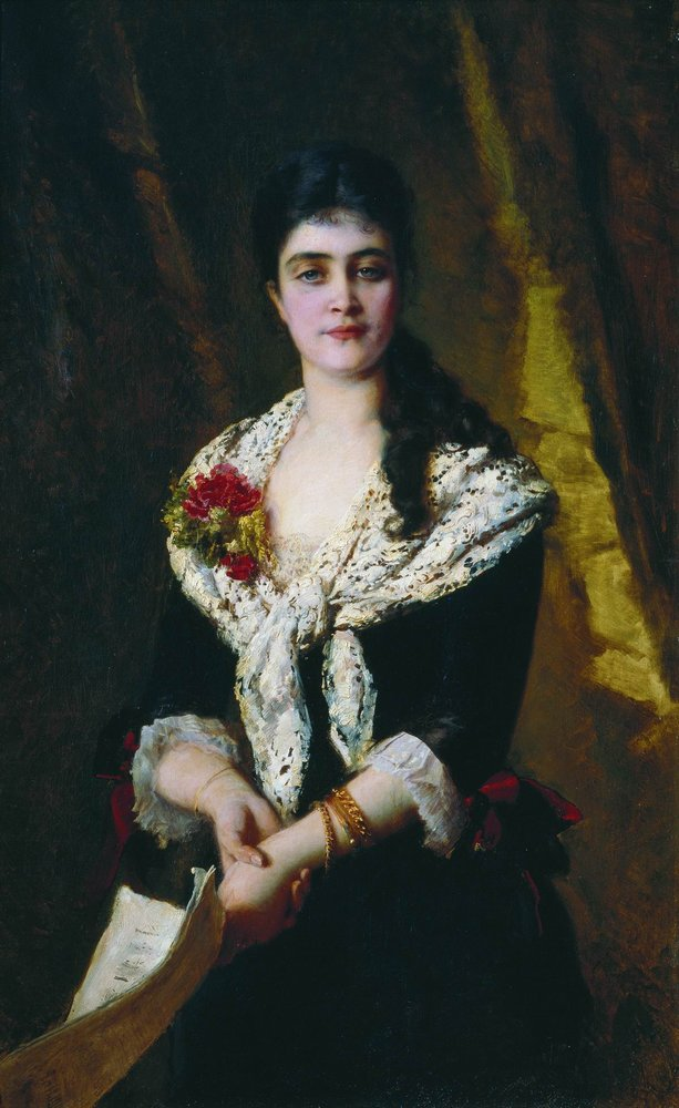 Portrait of Russian opera singer Sandra Panaeva (E.V. Panaeva-Kartseva; 1853-1942)